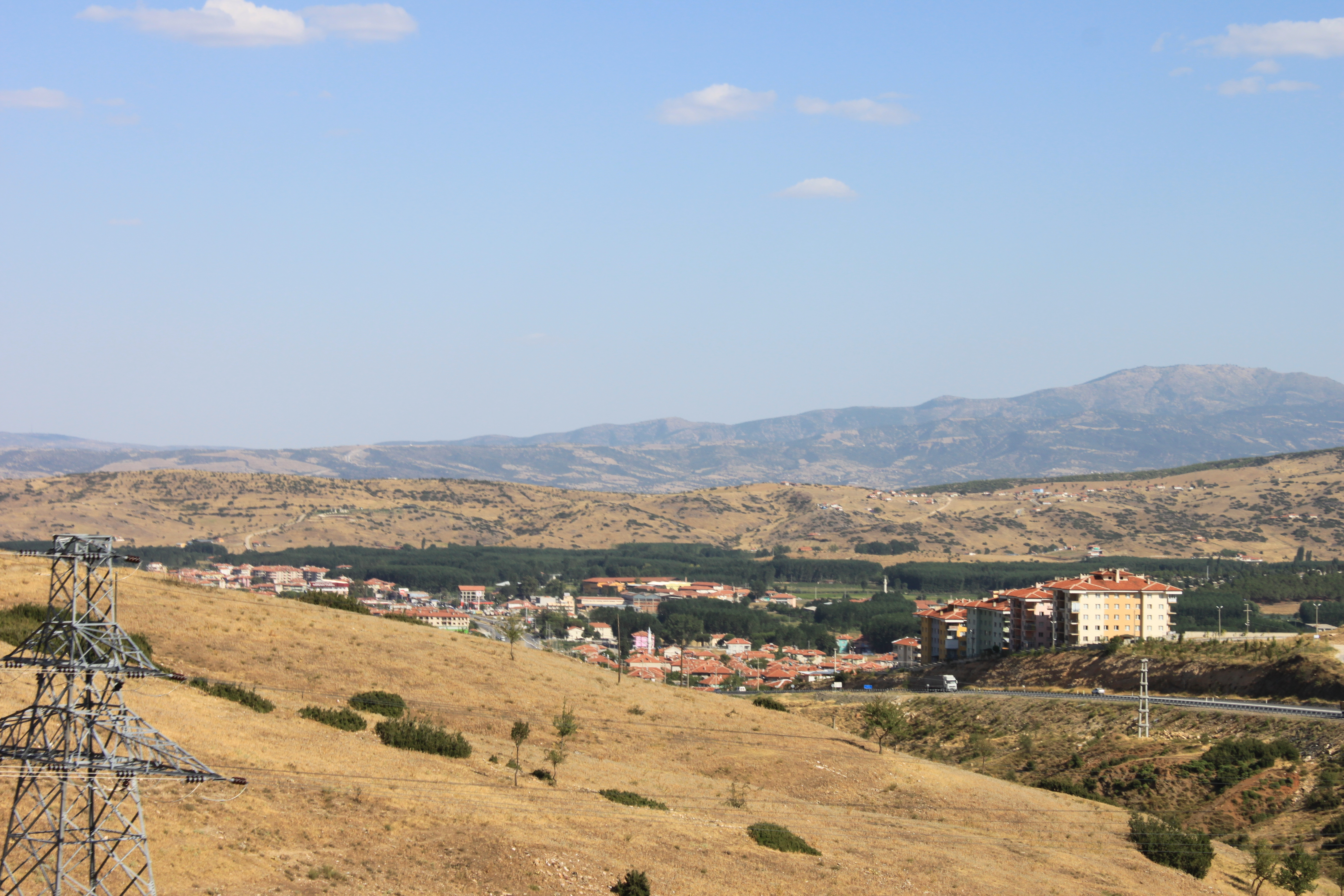 Salihli, Provinz Manisa, Turkey, view to the westAfrikaans: Salihli, Manisa provinsie, Turkye, soek weste